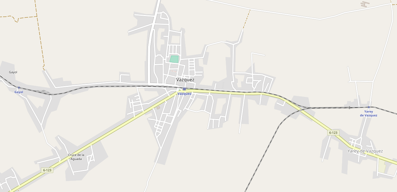 This map may be incomplete, and may contain errors. Don't rely solely on it for navigation.